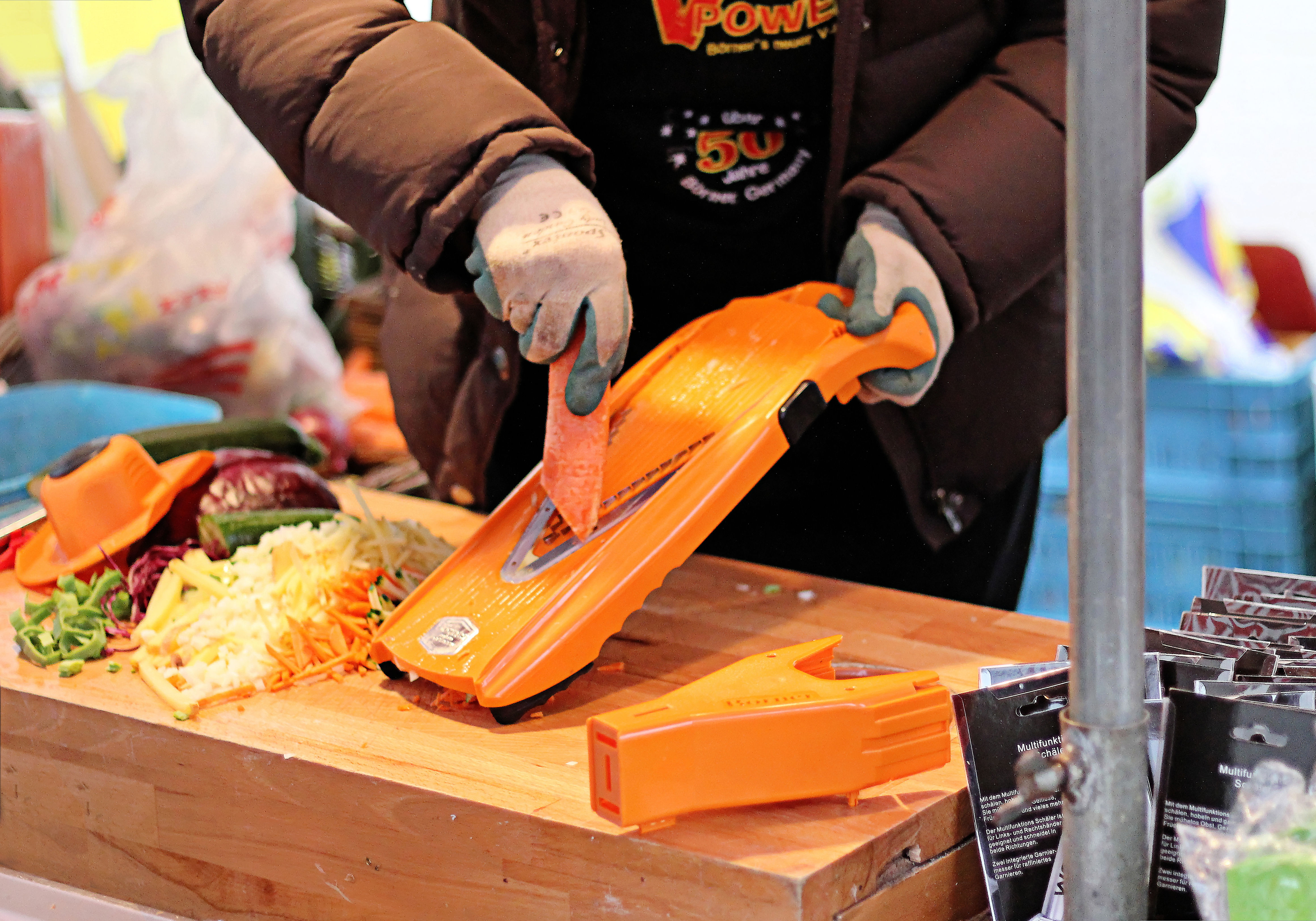 Slicer for vegetables and fruits with a V-shaped blade.